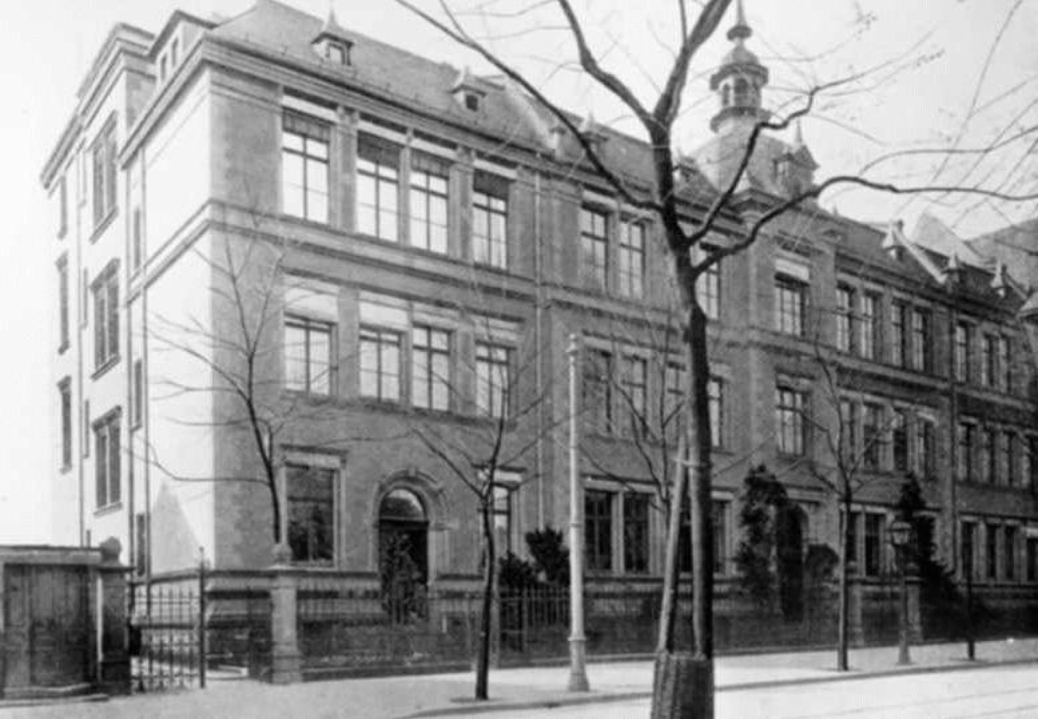 Samson-Raphael-Hirsch-Schule (formerly named as "Realschule und Lyzeum der Israelitischen Religionsgesellschaft"), Frankfurt am Main, Hesse, Germany, a jewish orthodox school for boys and for girls, founded by Samson Raphael Hirsch in 1853. The undated picture which was probably made in the first decade of the 20th century shows the new school building which was erected in 1881. It replaced the old smaller school building as the amount of pupils increased steadily. The school which was named after its founder in 1928, was closed on 30 March 1939. The building was harmed by Allied air raids in WWII (1943) and got opened again between 1946–1948. The building was taken down in 1960.